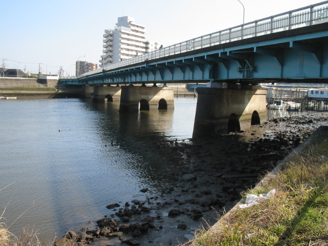 Mizue-Oohashi, Edogawa-ku, Tokyo, Japan.